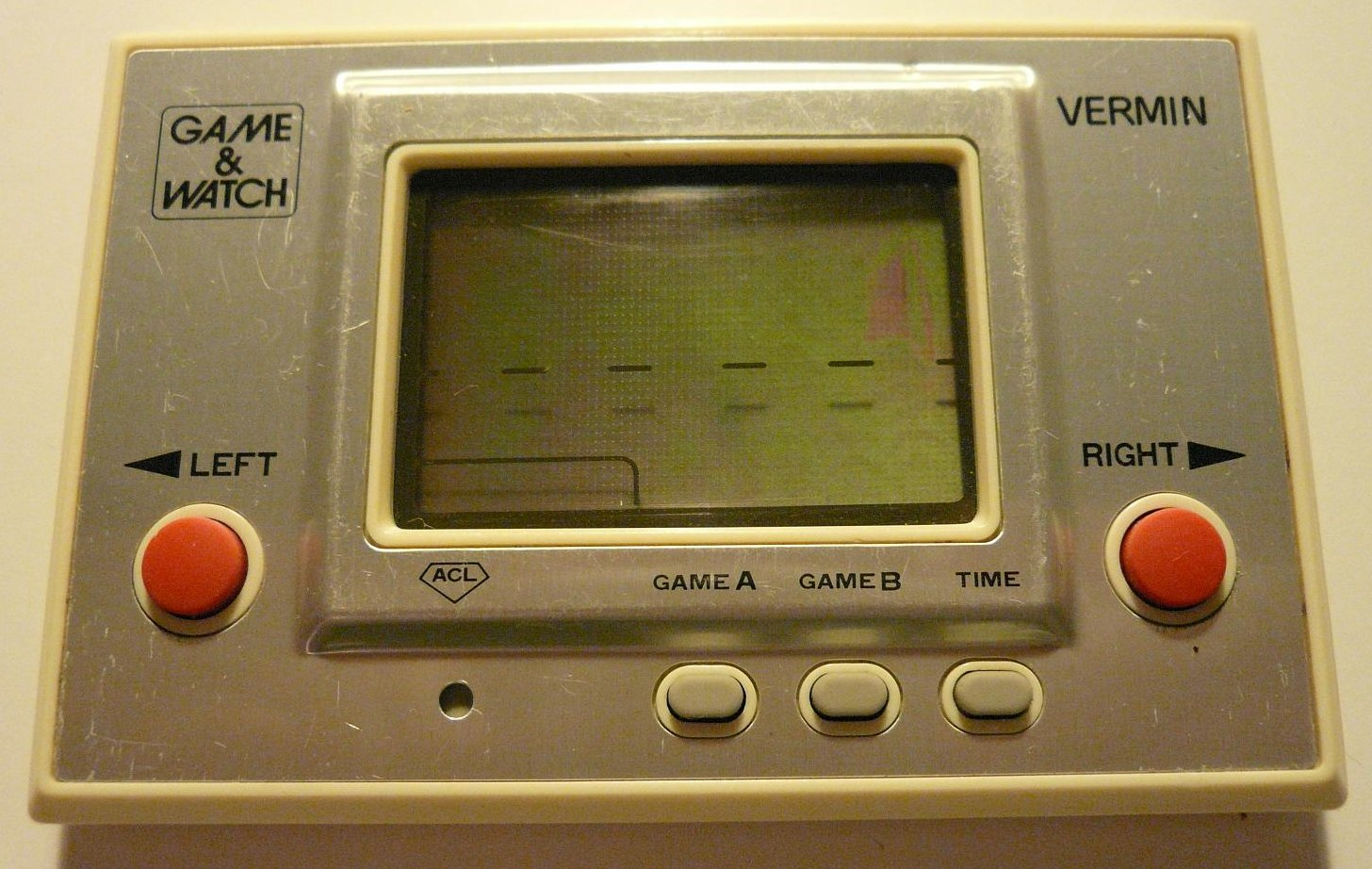 Vermin - Game&Watch - Nintendo